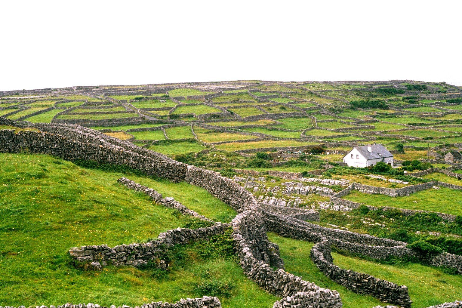 Little gardens handmade from seaweed and sand, protected from erosion by stone walls: Typical scenery on Inisheer (Inis Oírr), Aran Islands. (Sorry, Inishmaan in the title was wrong) This picture was taken by myself in summer 2002. Enhanced version by Patrick Charpiat, feb 2008 Author: Eckhard Pecher